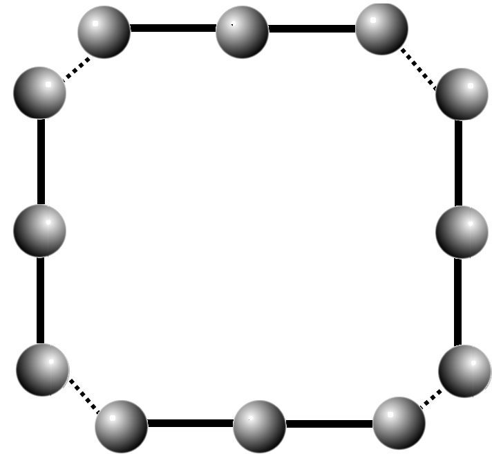 A dynkin diagram describing a pointed Hopf algebra with 4 linked borel parts of root system type each A3